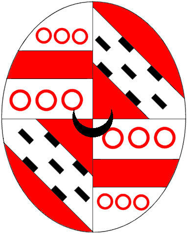 Arms of Lucas / FitzLucas (Argent, a fesse between six annulets gules) quartering Morieux (Gules, a bend argent billetty sable) These arms are visible in St Nicholas's Church, Little Saxham, Suffolk. Thomas Lucas (d.1531) of Little Saxham Hall was Solicitor General to King Henry VII & King Henry VIII. Also arms of Henry Lucas (d.1663), MP and also of Baron Lucas of Shenfield